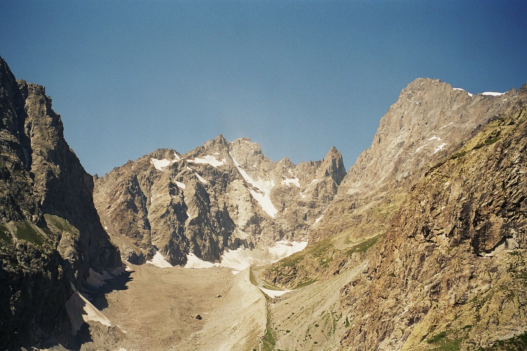 Glacier Noir, Pic Coolidge and Barre des Ecrins from the way to Glacier Blanc. Massif des Ecrins, France.